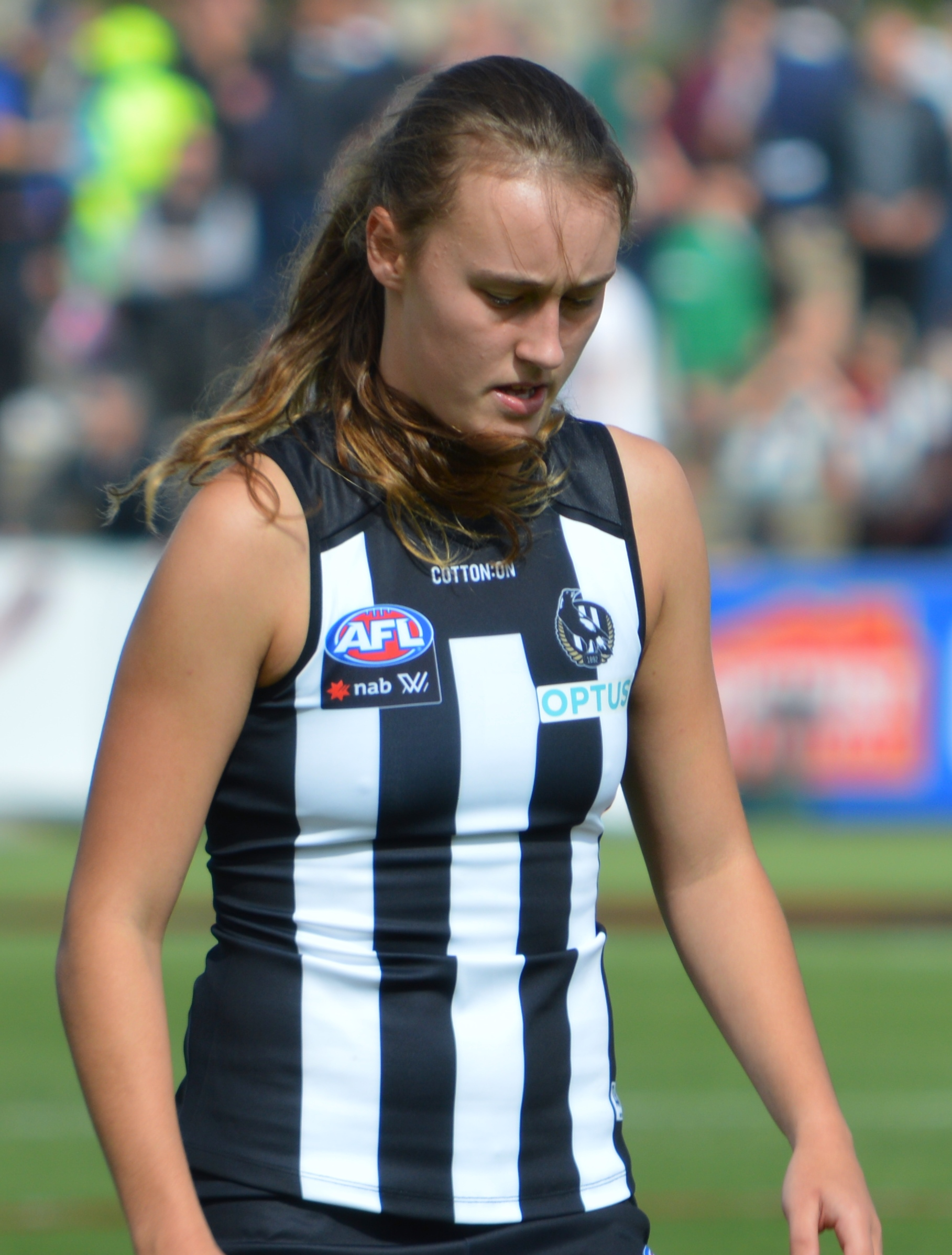 Jordyn Allen with Collingwood during a match against Melbourne at Victoria Park in round 2 of the 2019 AFL Women's season.